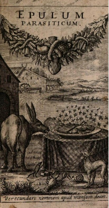 Frontispiece of "Epulum parasiticum", Nuremberg, 1665